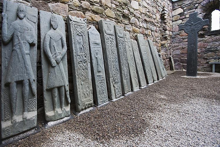 Author: Antony McCallum Carved life size grave slabs mostly C14th and C15th at Kilmory Chapel